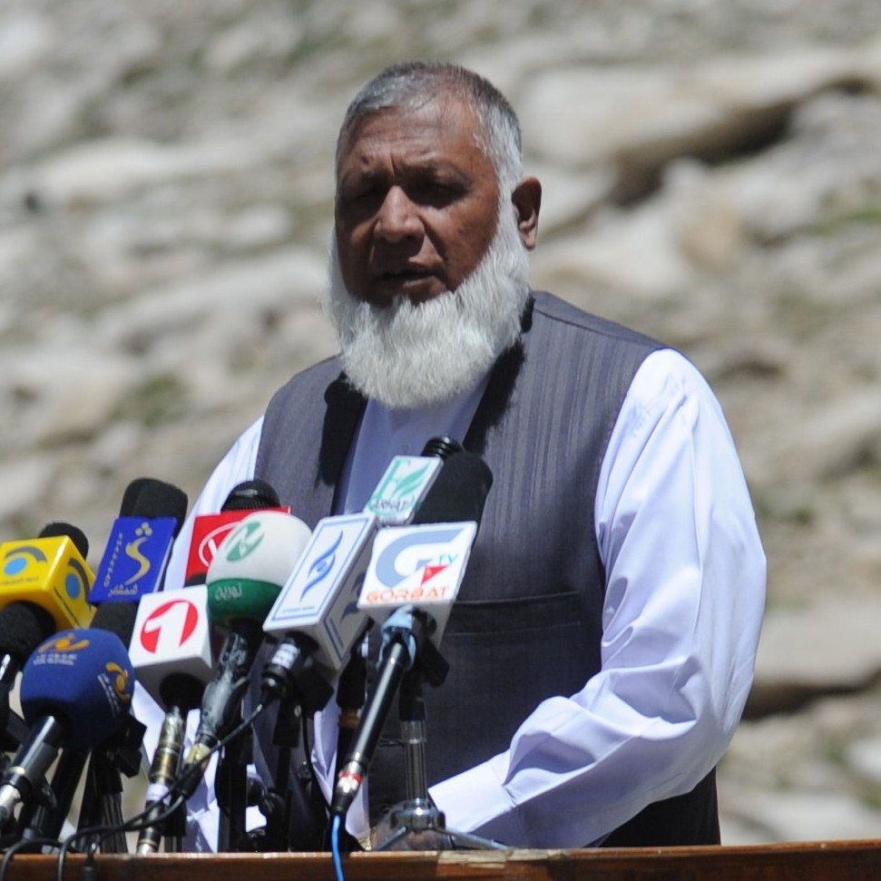 Baghlan Governor Mohammad Akbar Barakzai makes remarks during a ceremony to mark the beginning of renovations at the Salang Tunnel on the border of Parwan and Baghlan Provinces, Afghanistan.